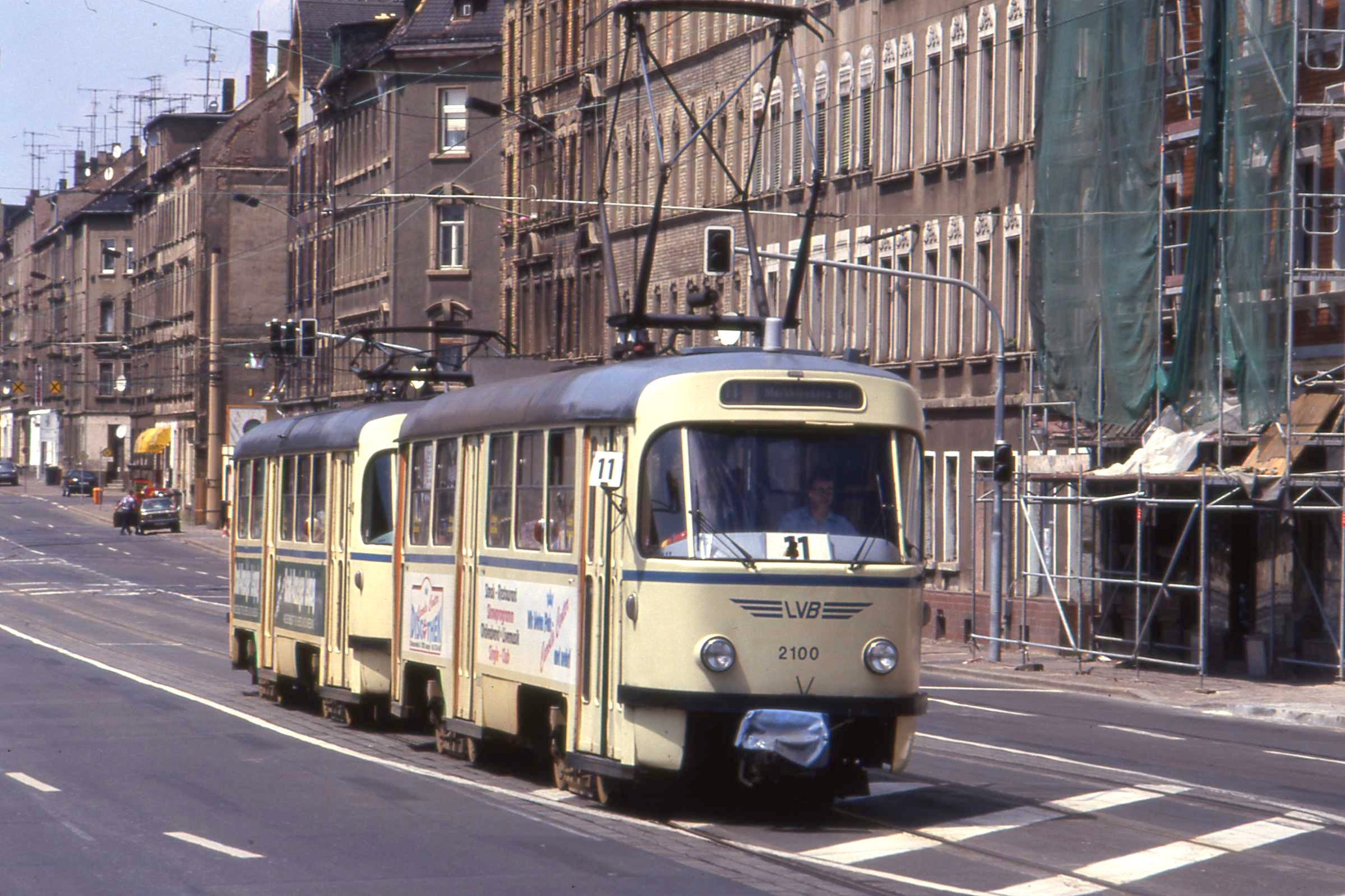 LVB Tatra T4D tram no 2100 in a 2-car set on Route 11 to Markkleeberg Ost. This was a very long north-south route from Luetzschena towards Leipzig airport, and Schillerstrasse, the joint southernmost outpost of the system along with Knauthain on the SW side. Photographed in Georg-Schumann-Straße.